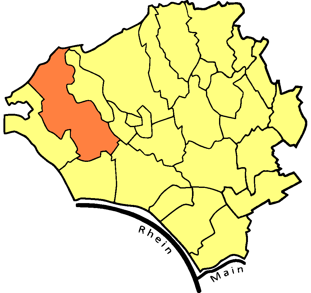 Map of Wiesbaden showing the location of Dotzheim